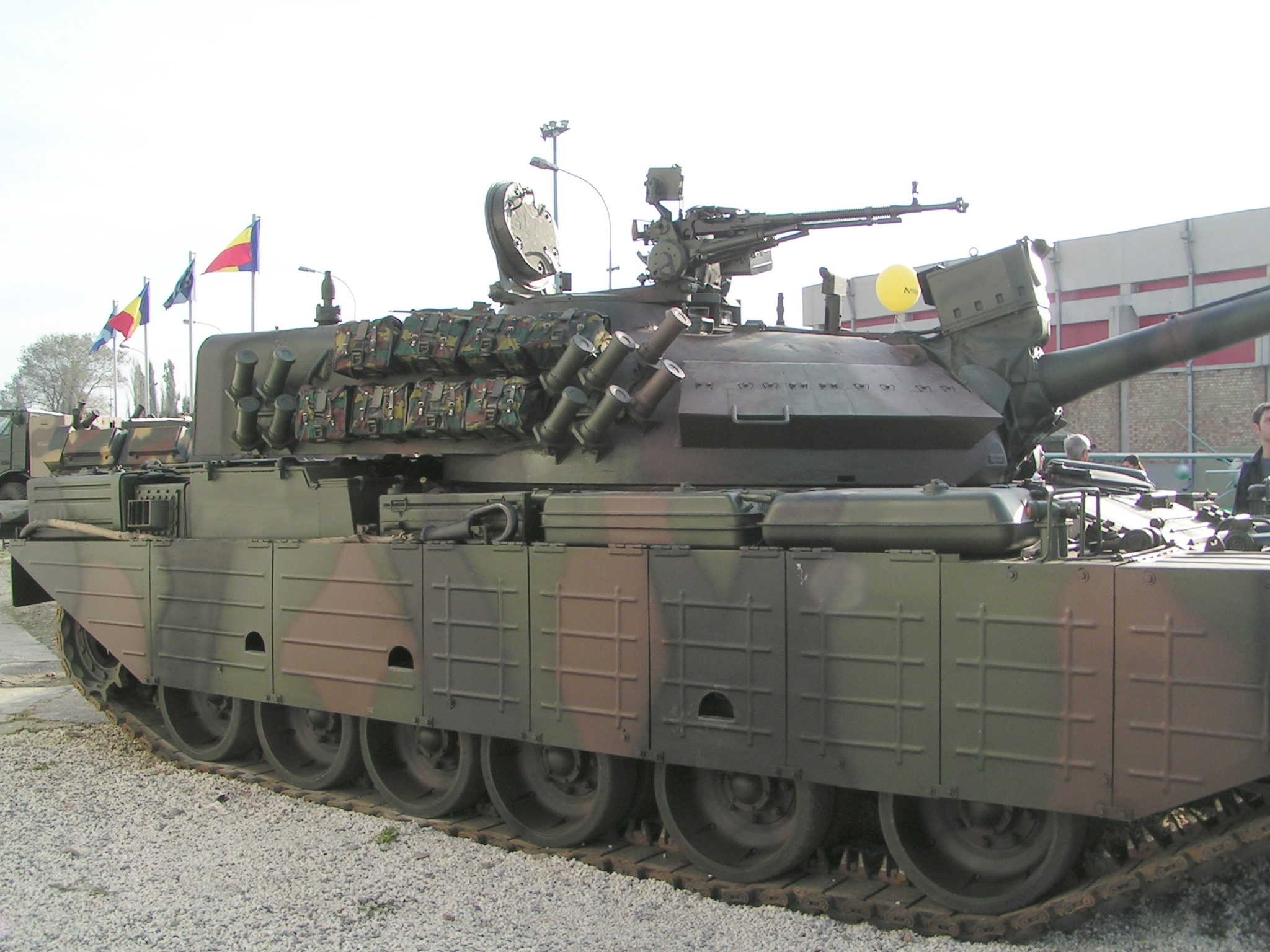 Author-DoloresRKT, TR-85M1, Expomil_2005, Bucharest-Romania